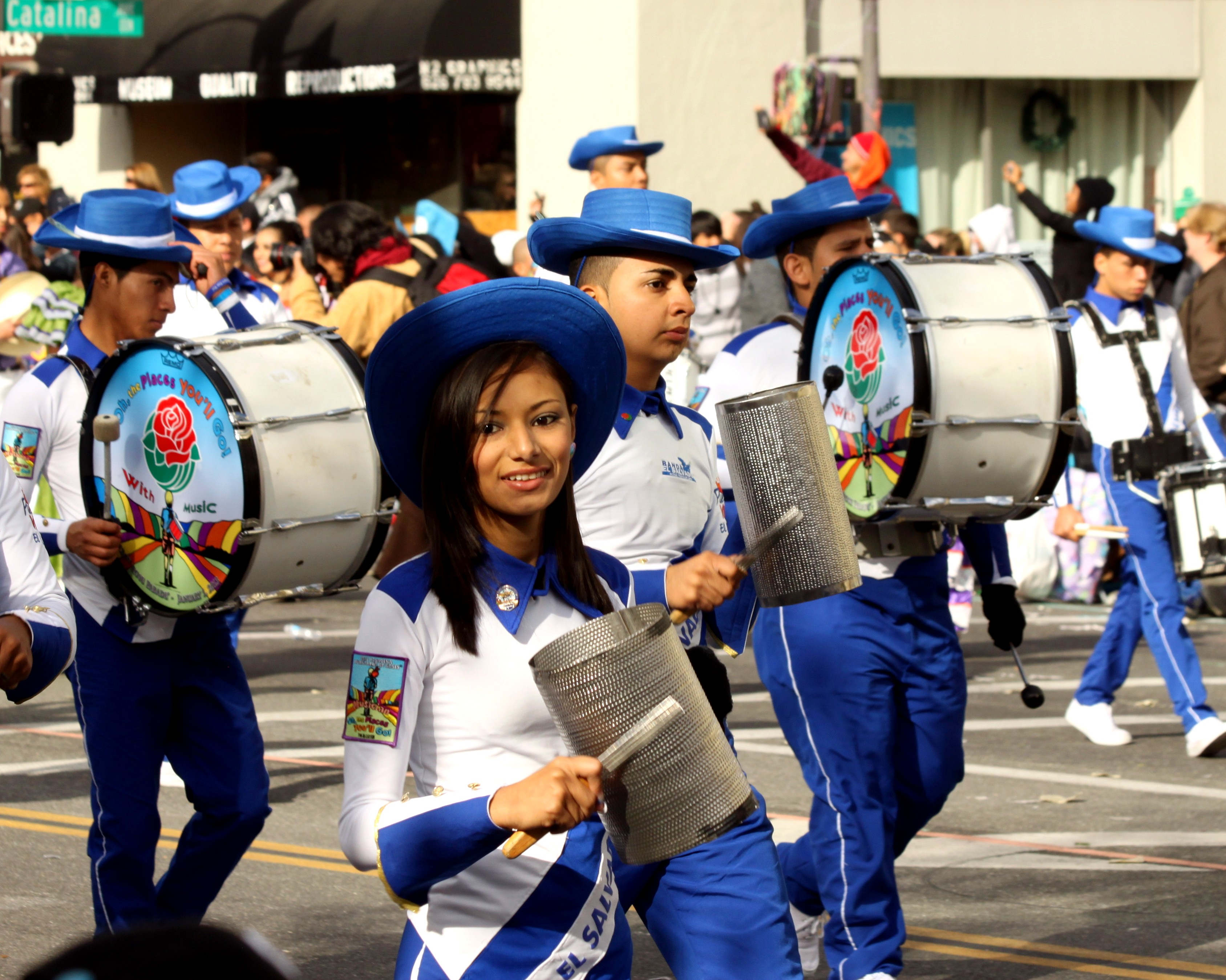 Marching Band 2013 Rose Parade Pasadena, California